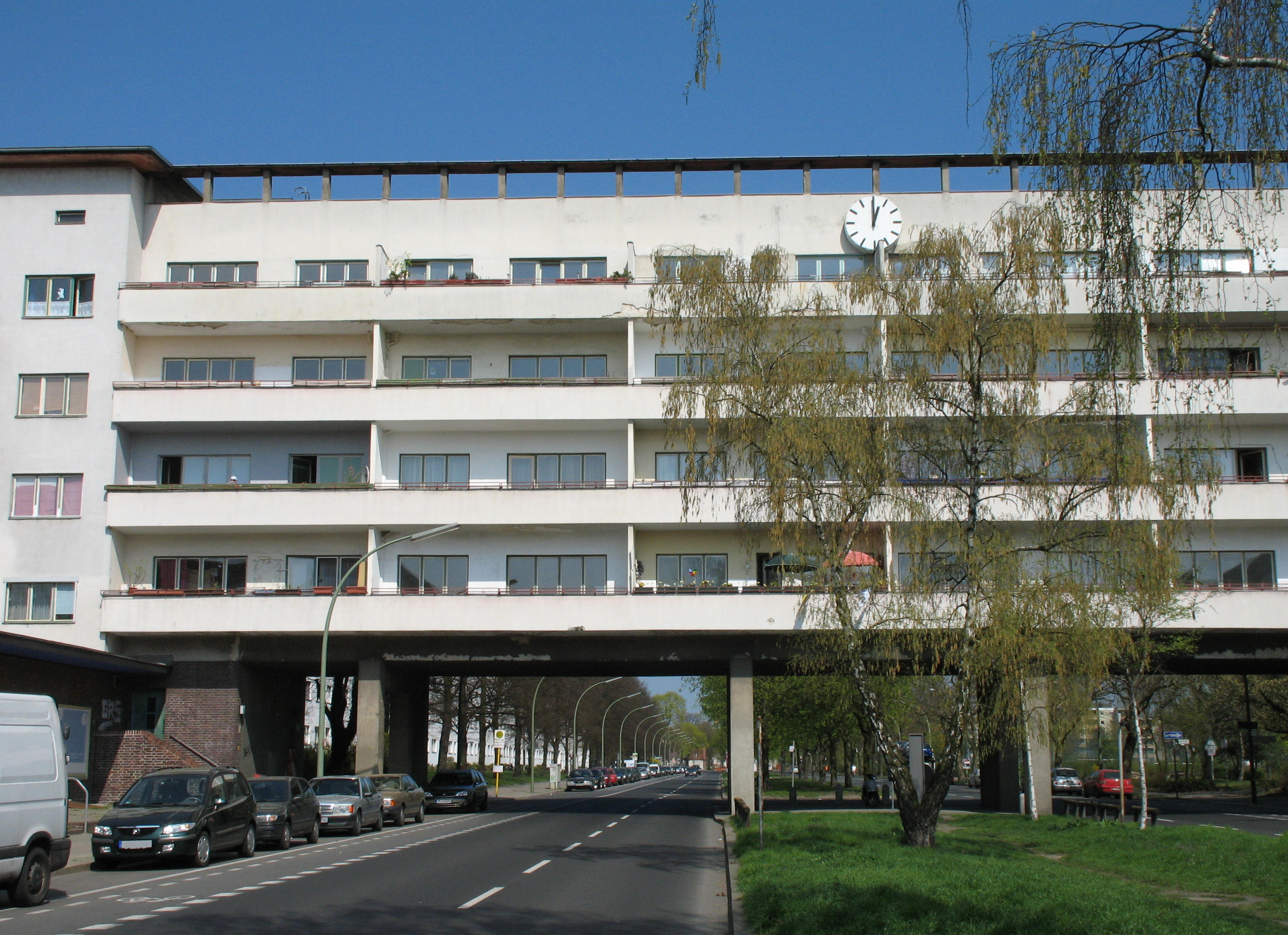 Weiße Stadt (White City) in Berlin-Reinickendorf, Germany